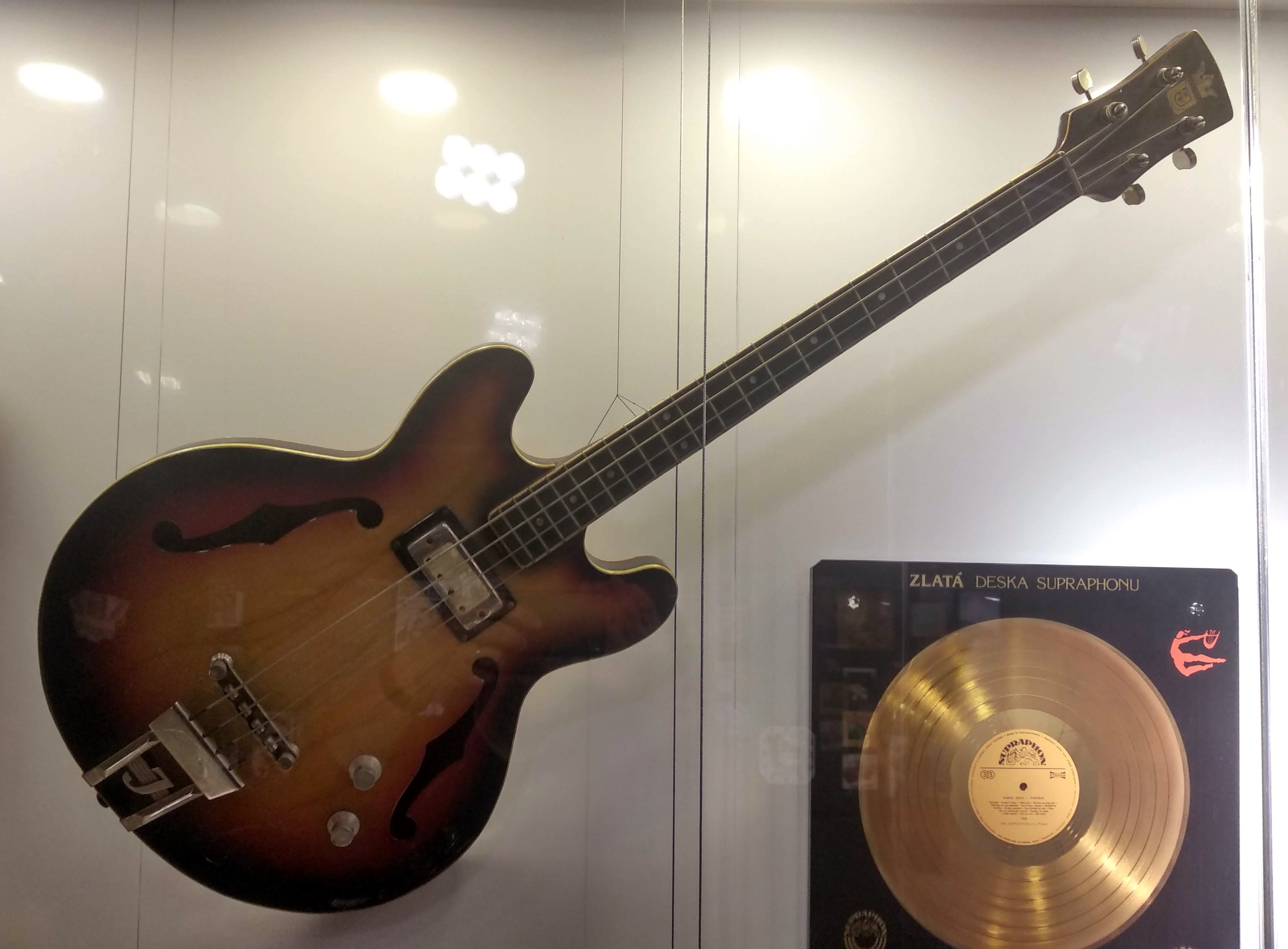 Czech-made electric bass guitar (e-bass) Alexis I by Jolana, 1963. Semi-hollow, four-string, single humbucker pickup in neck position (H) (the sister model Alexis II came with two humbucker pickups (HH)). Design similar to Gibson ES-335 models. Jolana also made a similar six-string guitar, the Alexandra.